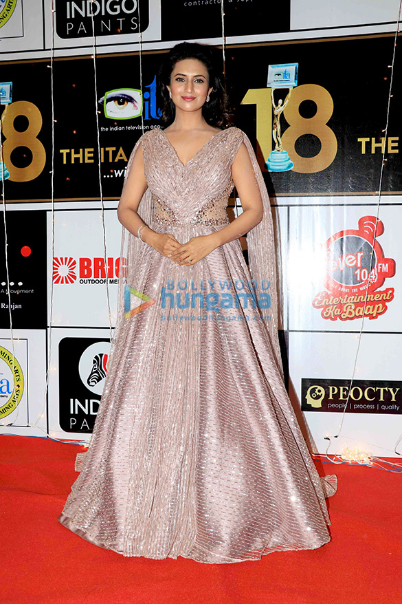 Divyanka Tripathi grace the 18th ITA Awards, 2018